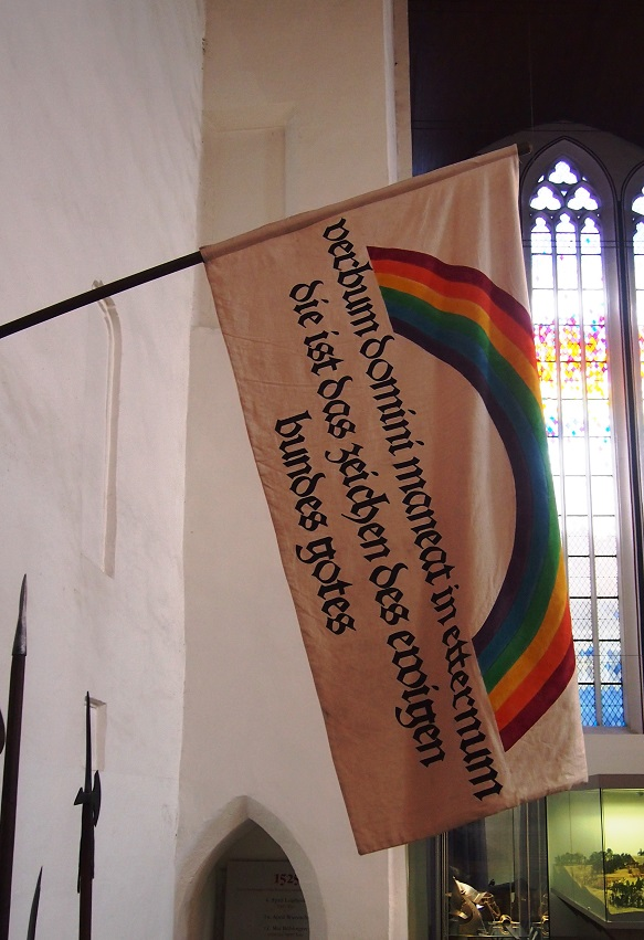 Rainbow Banner of the Muehlhaeuser band which set off for Frankenhausen under Thomas Muentzer - now in Muhlhausen Museum